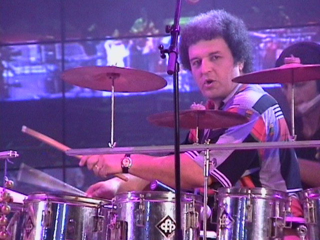 In redivivus-concert with Phoenix 2002